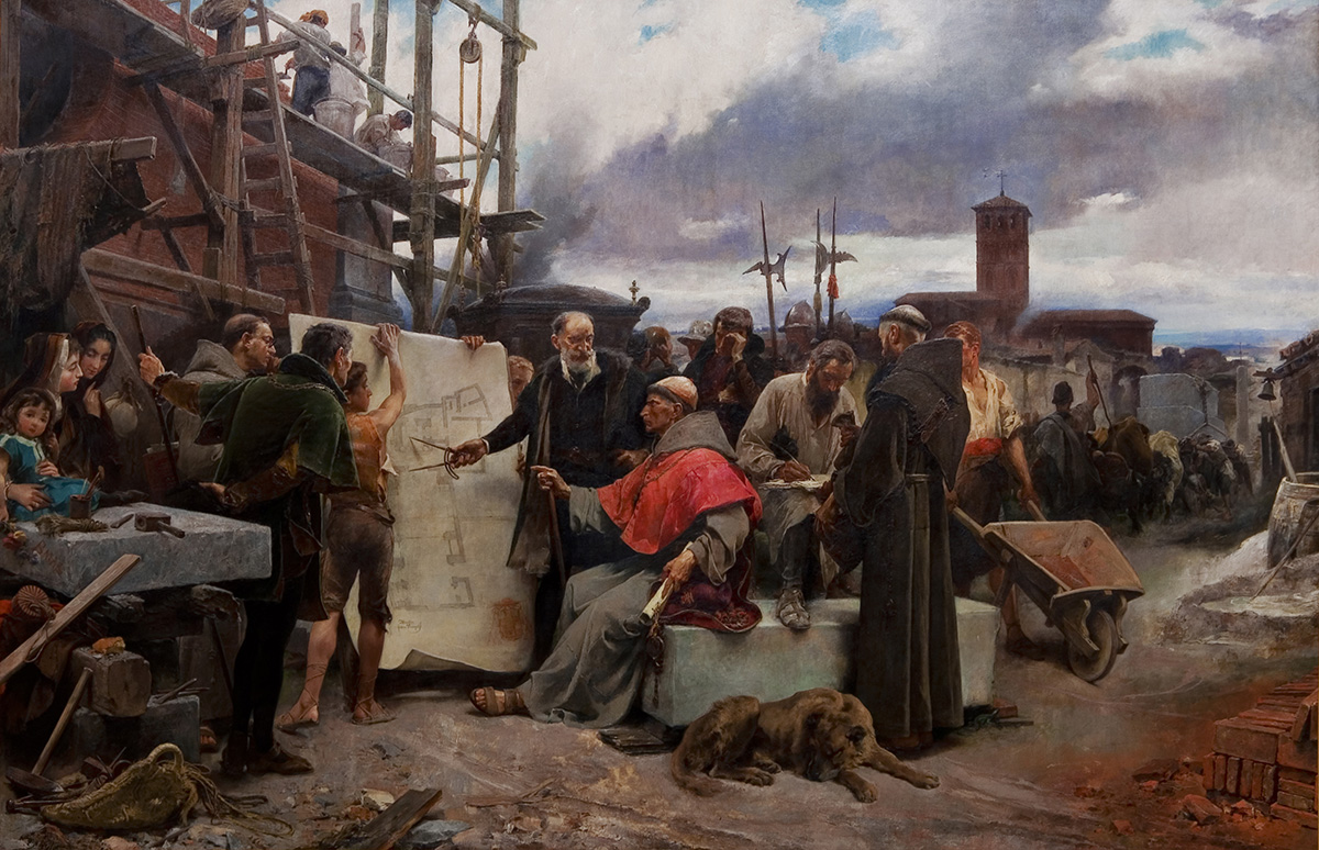 Cardinal Cisneros directs the construction of the Hospital of the Charity. Sanctuary of the Charity of Illescas (Toledo).